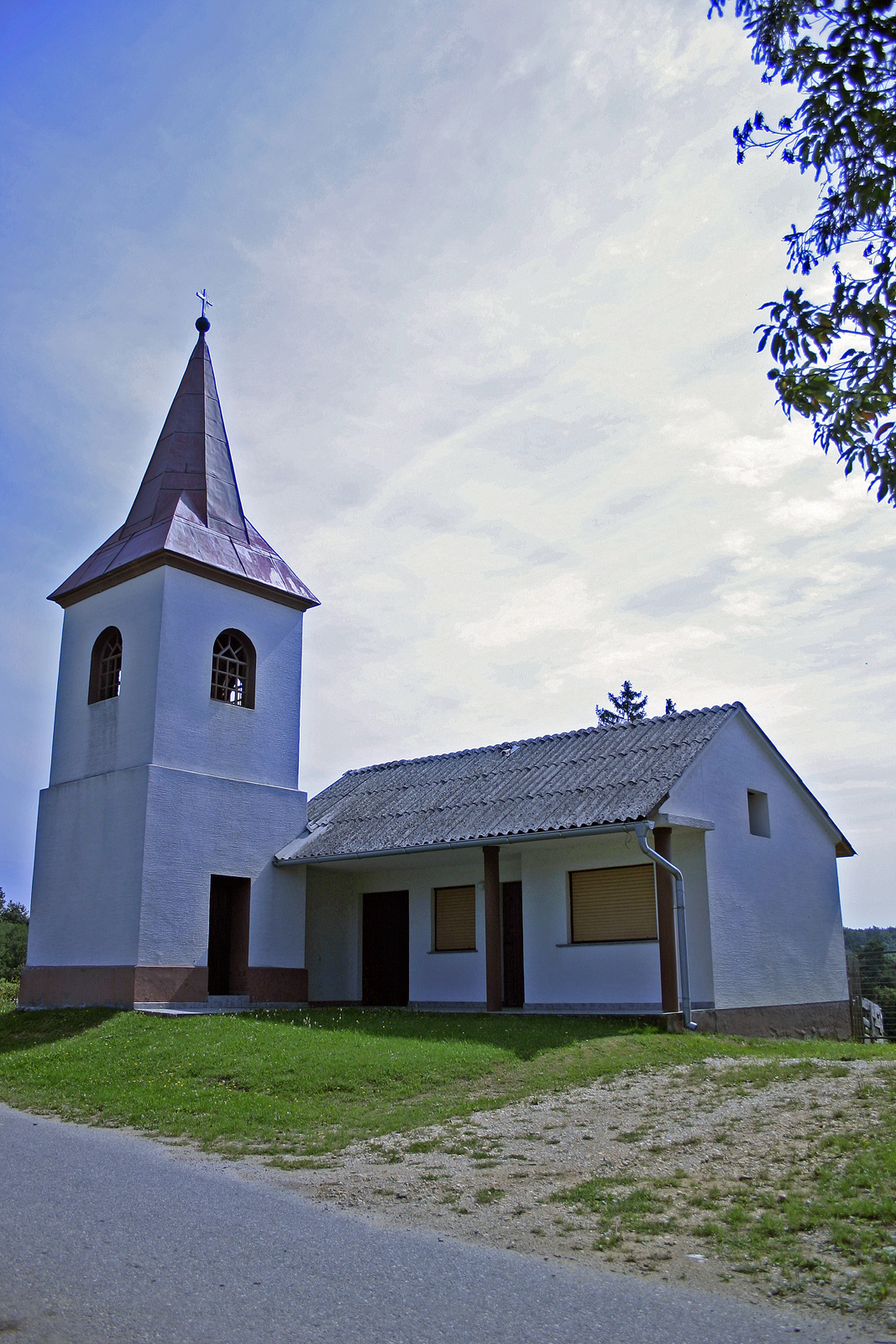 Chapel Košarovci Slovenia